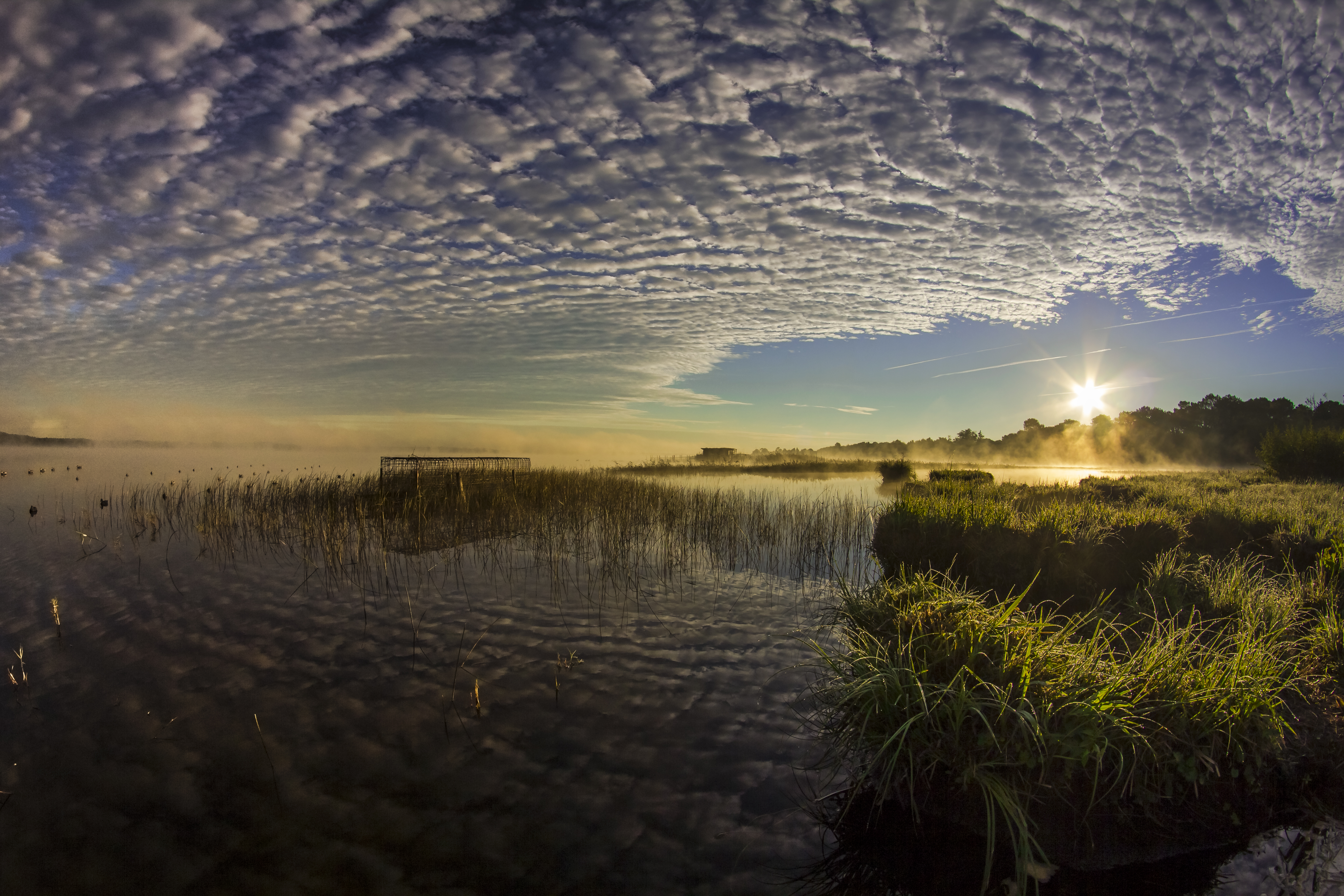 Sun rising over Gombault natural parc, Mimizan, France.